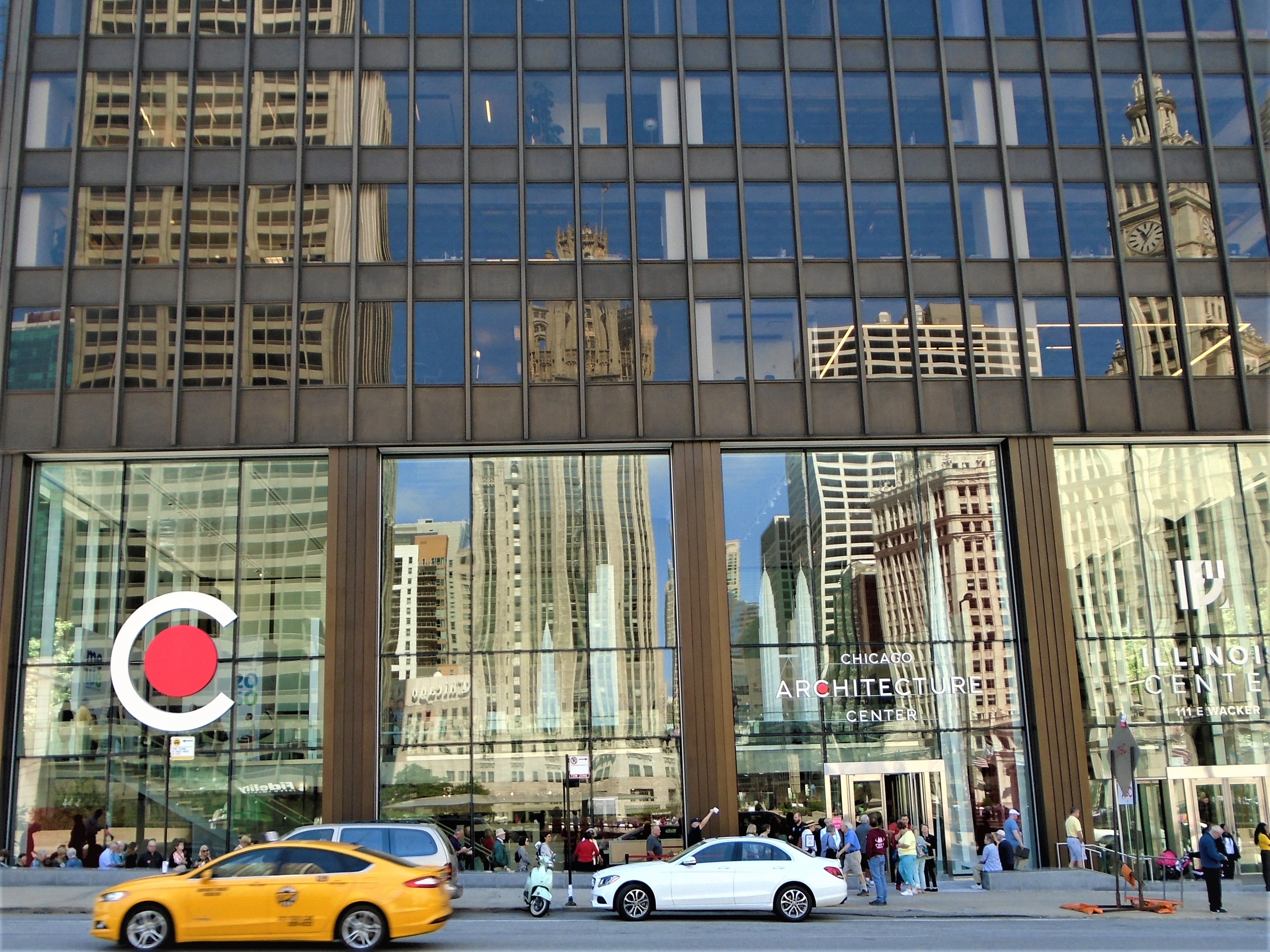 Chicago Architecture Center (formerly Chicago Architecture Foundation) new facility opened August 2018